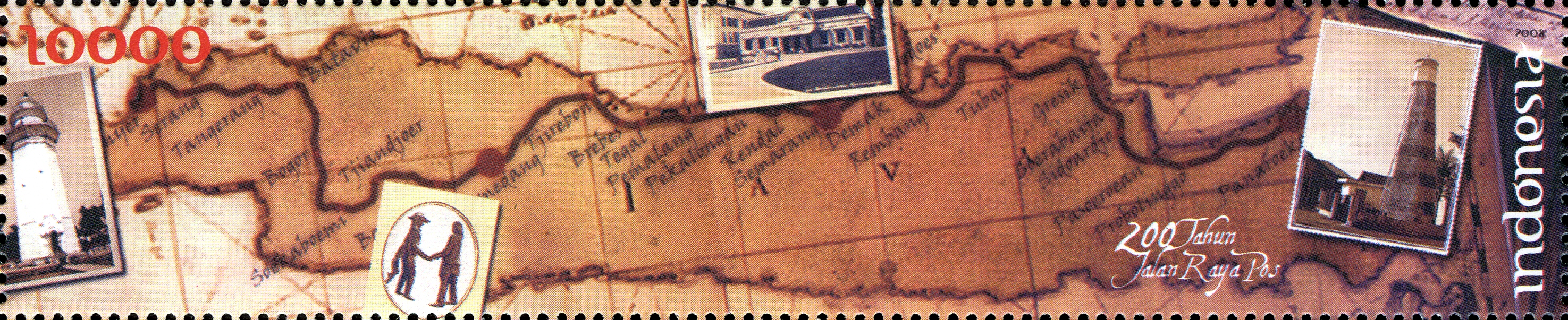 Stamps of Indonesia